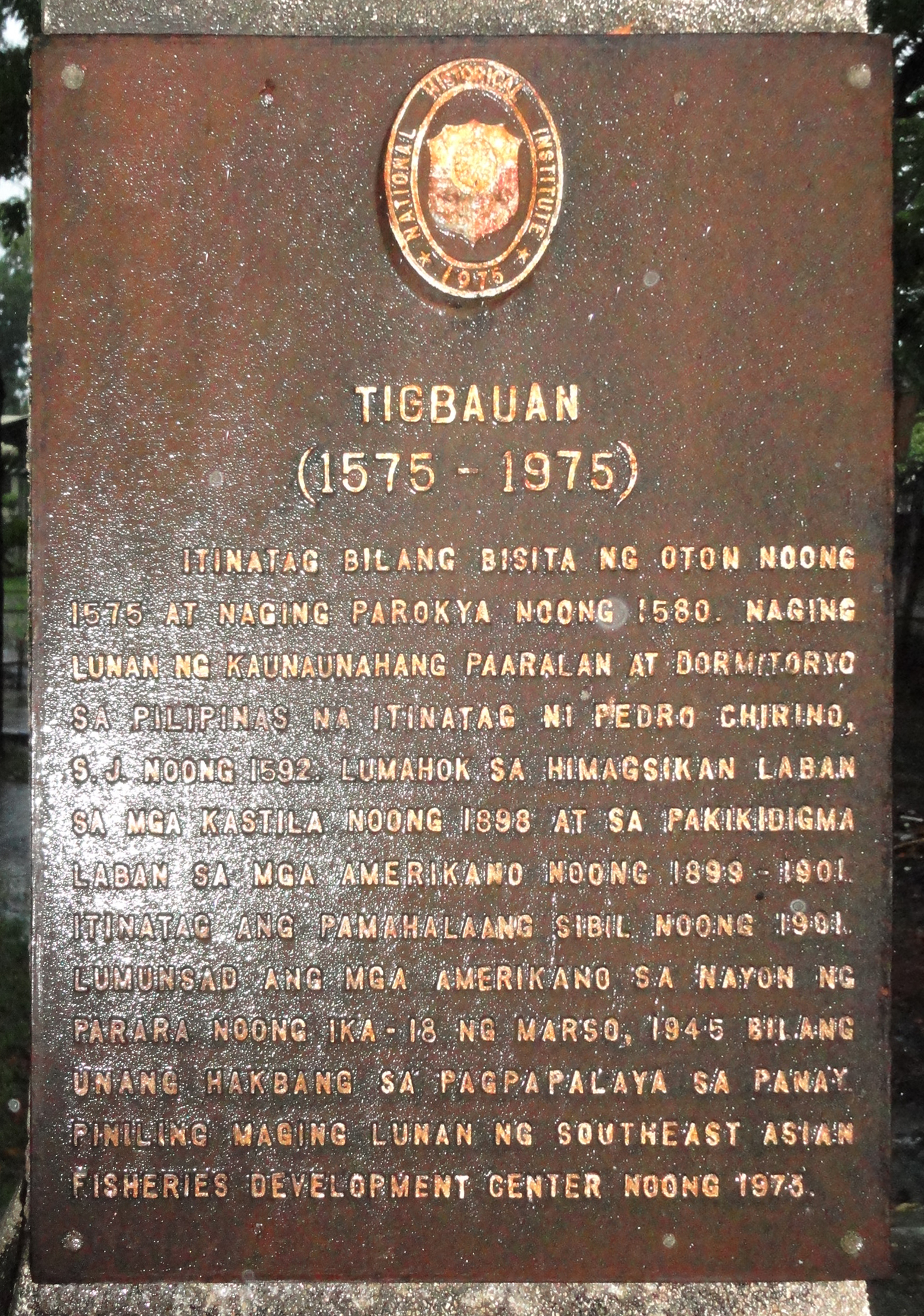 Tigbauan historical marker